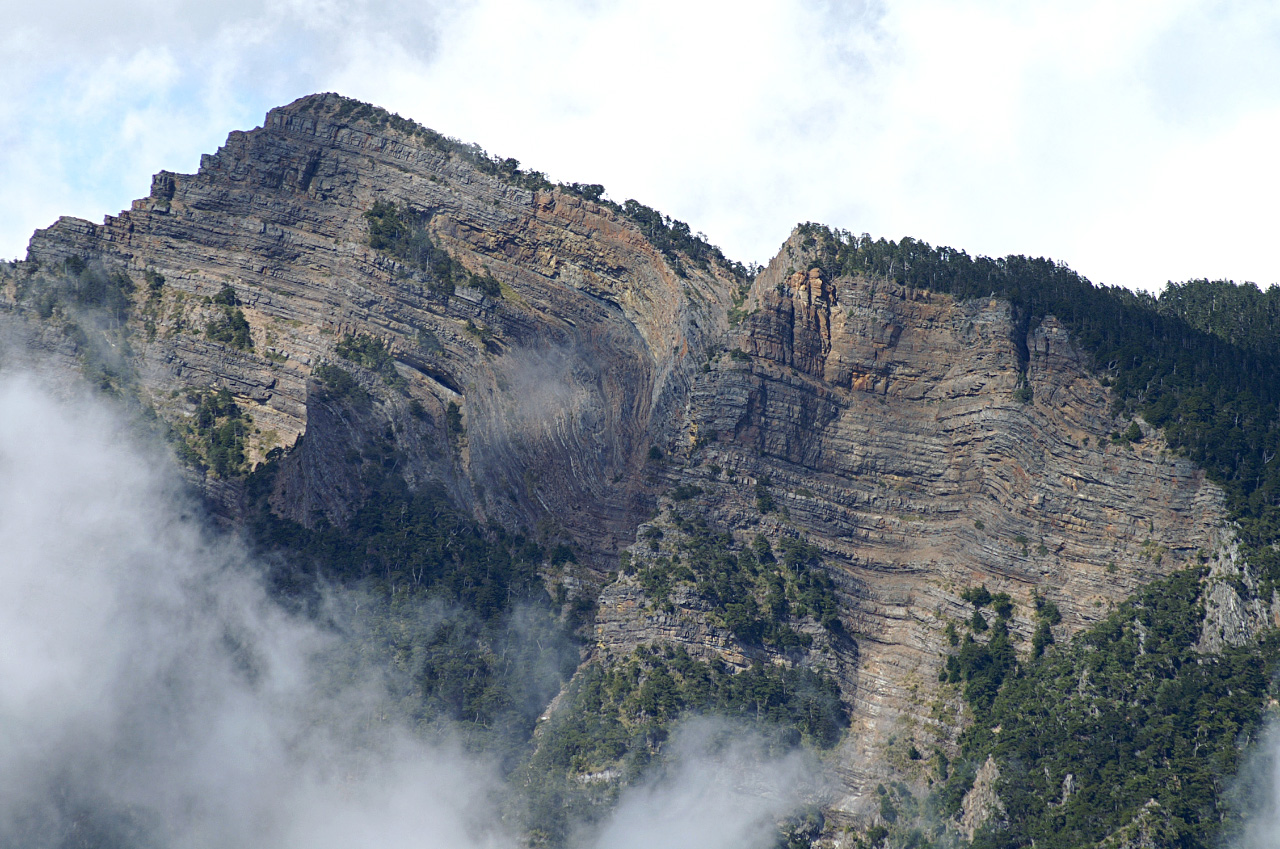 Pintien Mountain中文（台灣）: 台灣品田山